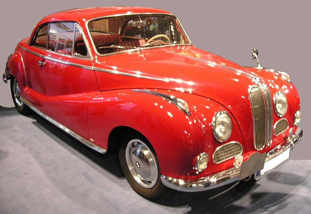 Essen Techno-Classica 2007, BMW 502 Coupé